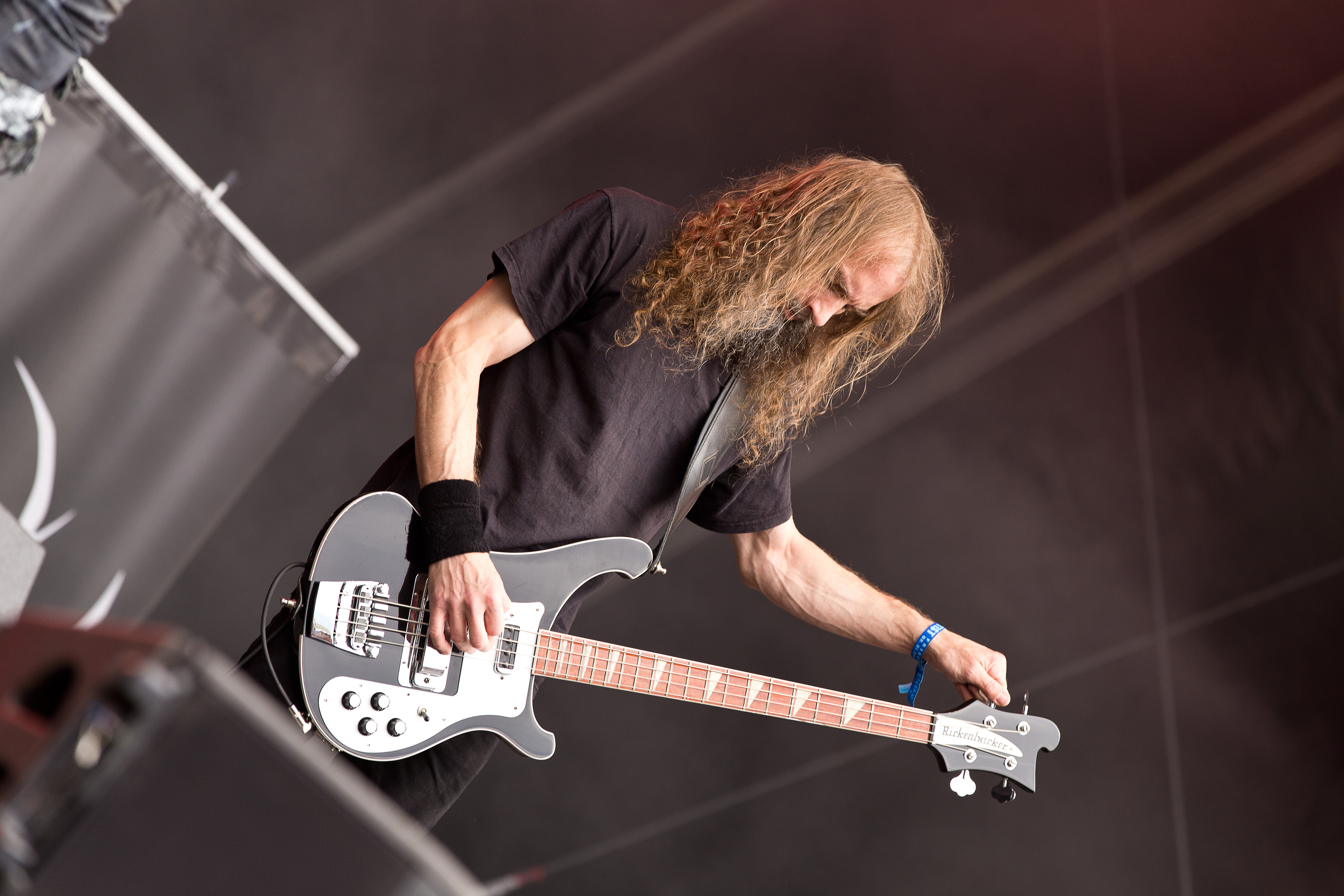 The Irish pagan metal band Primordial at the Rockharz Open Air 2016 in Ballenstedt/Germany.